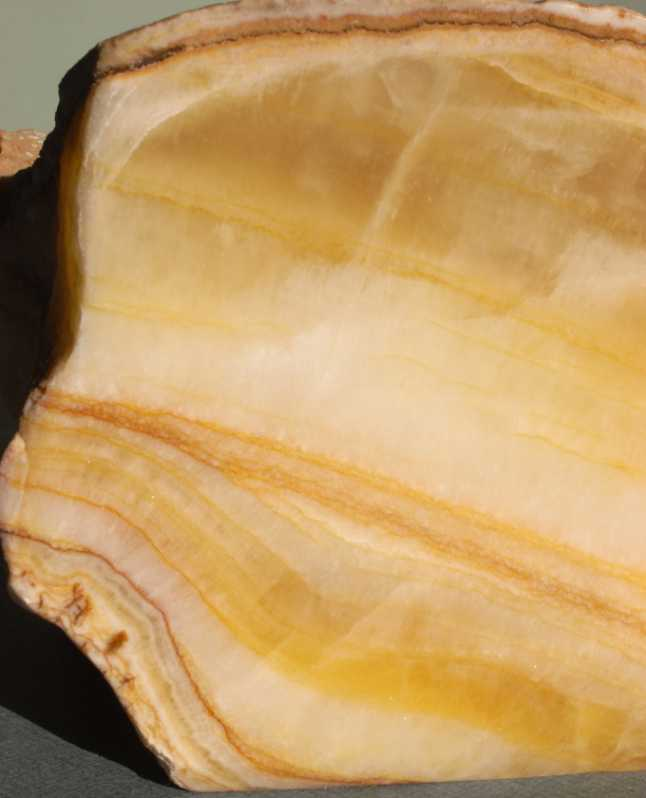 onyxmarble "Zlaty onyx", Levice (Slovakia)